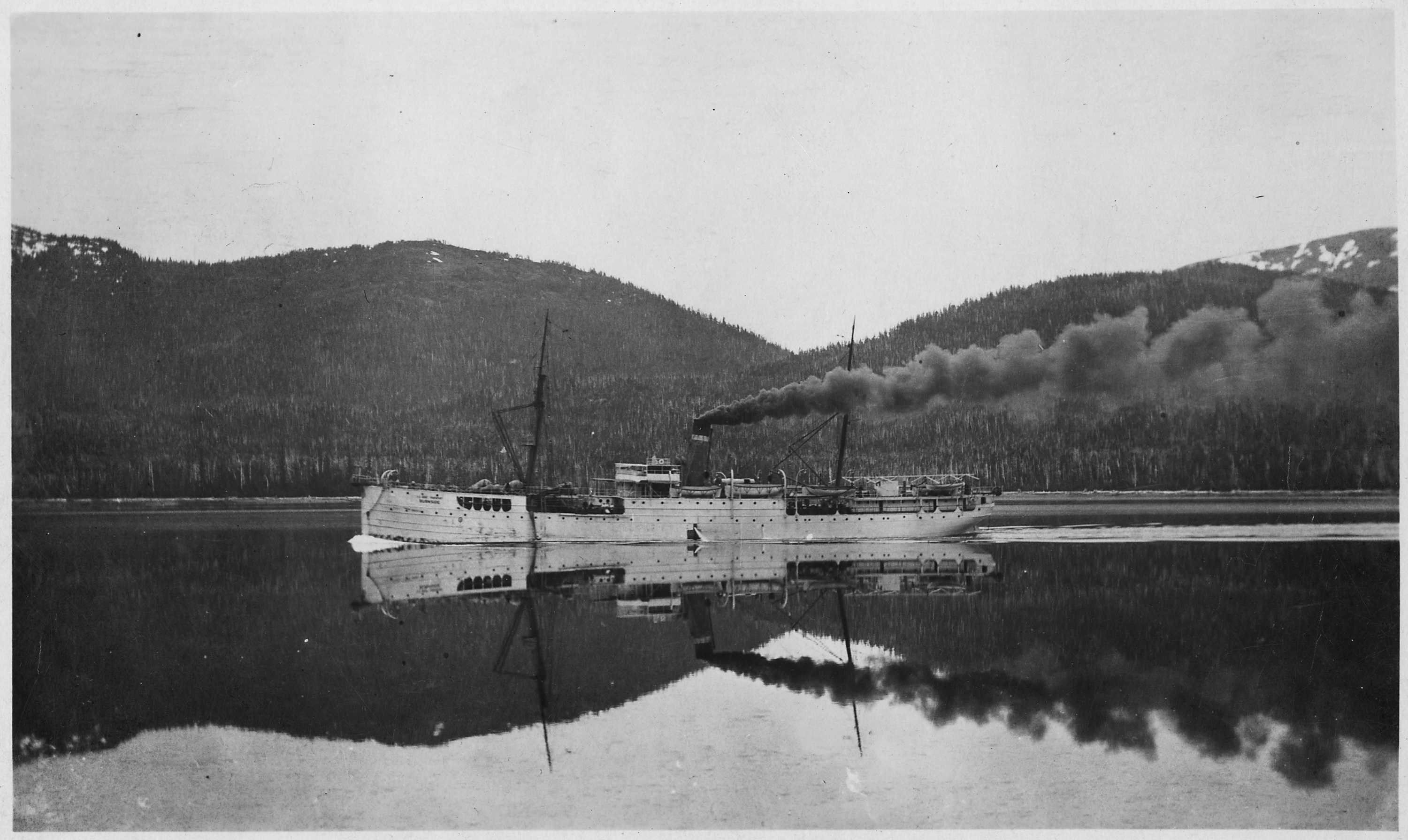 Scope and content: On Backing: "Picture contained in wrapper marked 'Taken and presented by Mrs. Eardley' in handwriting by H.S. Wellcome.